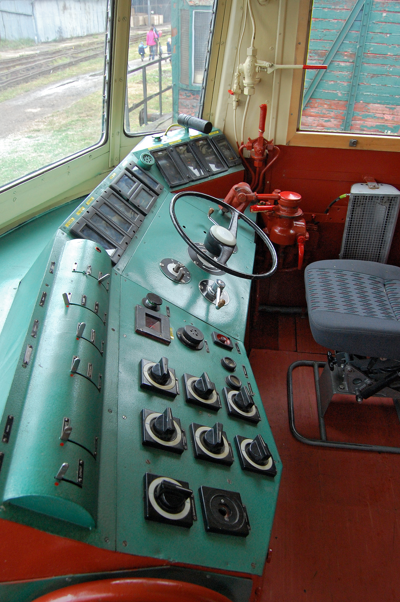 Driving cab of historic class 180 (E 669.0), depot Česká Třebová.